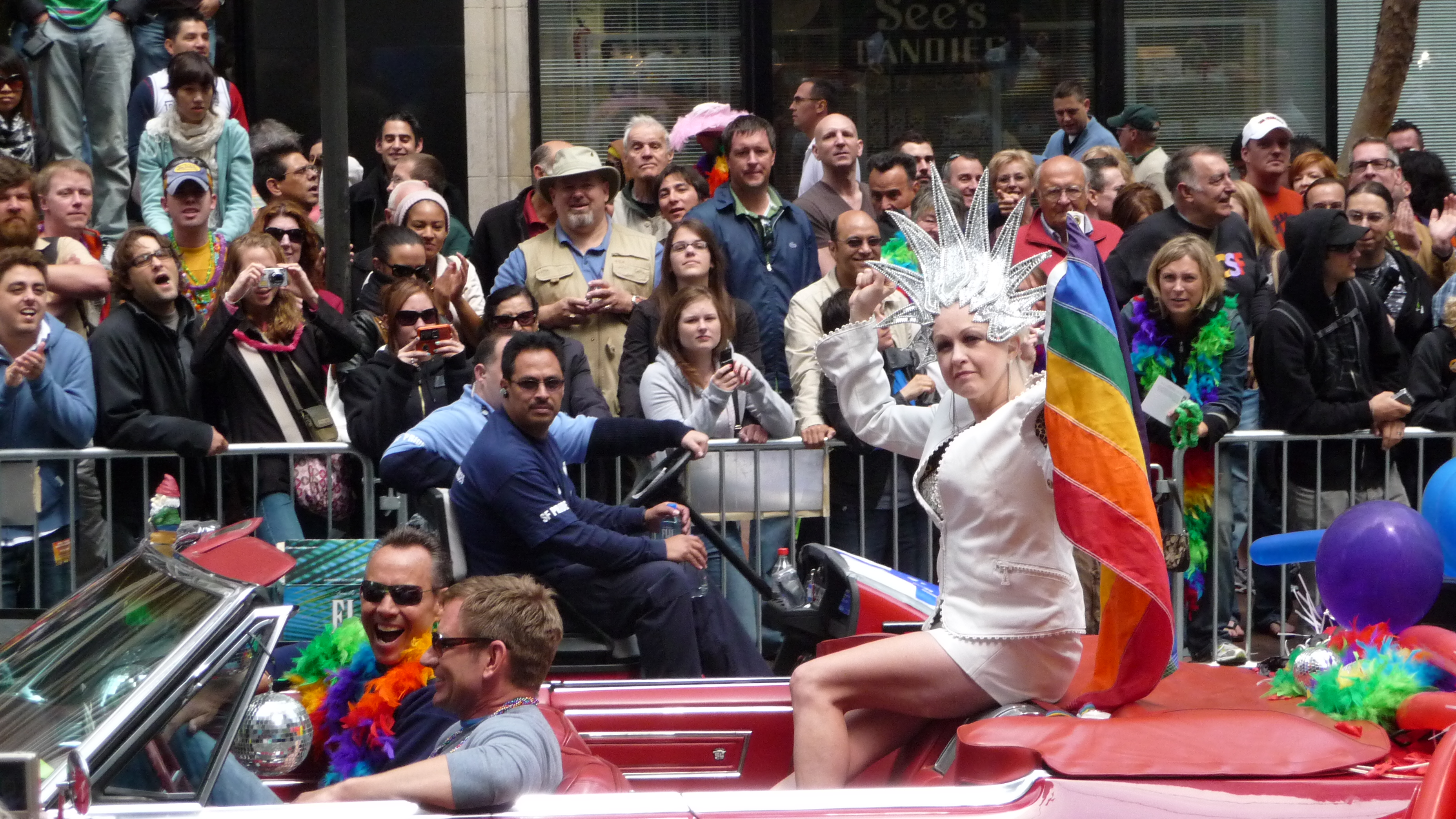 Cyndi Lauper at 38th Annual San Francisco LGBT Pride parade